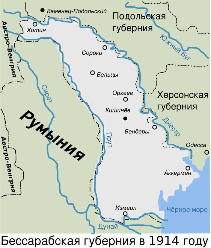 improved version of Image:Bessarabia.svg